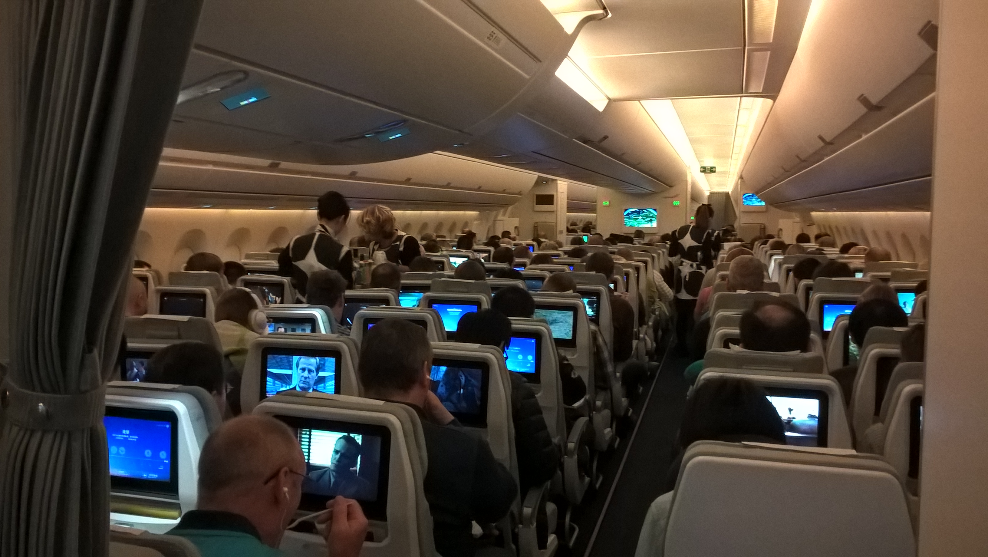 A view to Finnair's Airbus A 350-900 cabin's economy class.